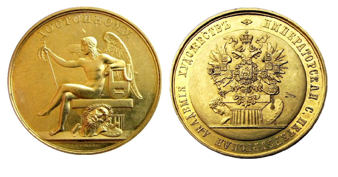 Award Medal of the Imperial Academy of Arts "Praiseworthy"